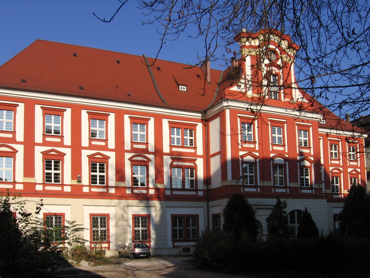 Ossolineum Library, southern extension in Wrocław, Poland.